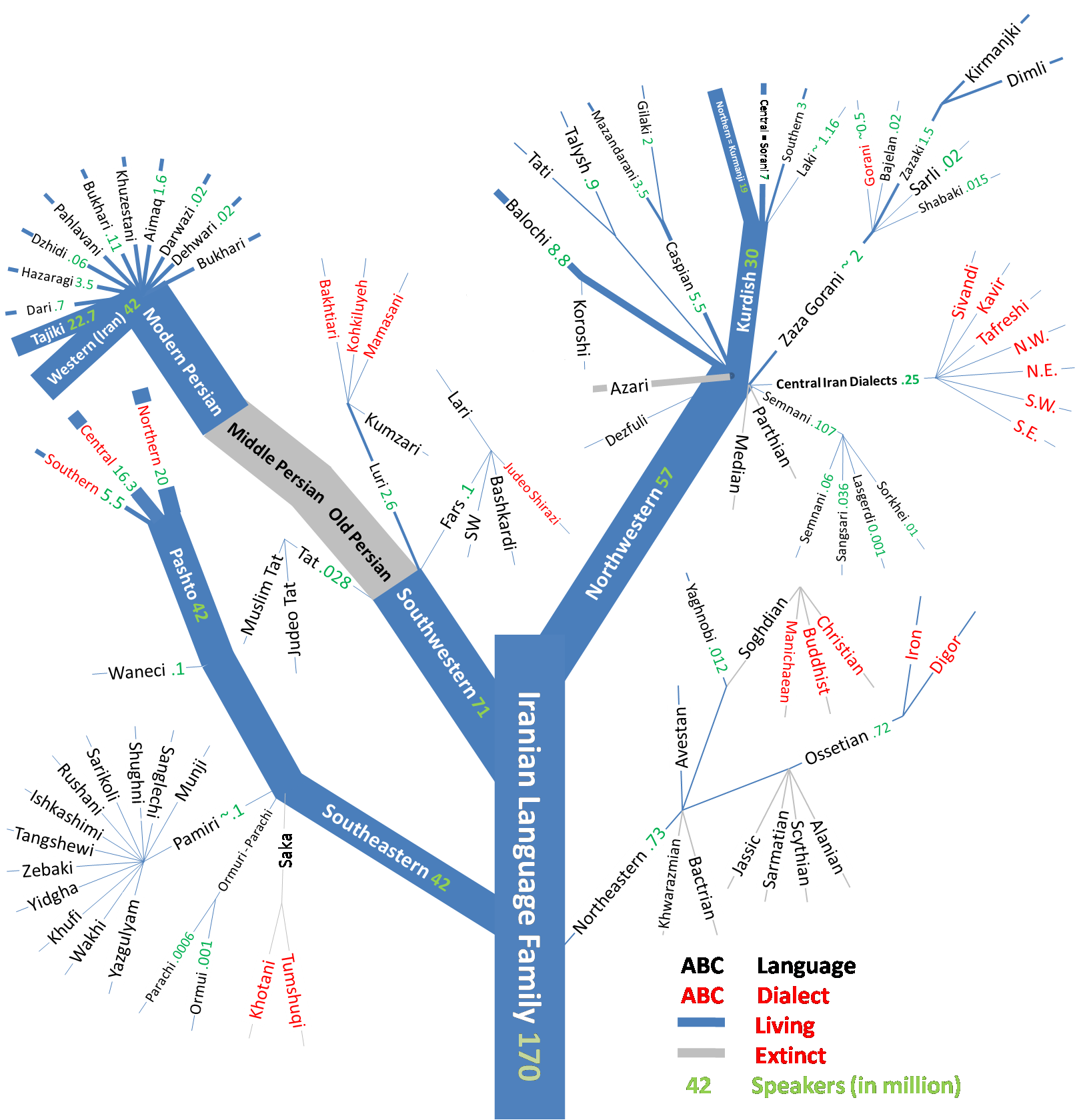 Iranian Language Family Tree